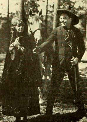 Still from the American western film Riders of Vengeance (1919) with Seena Owen and Harry Carey, on page 1238 of the May 24, 1919 Moving Picture World.